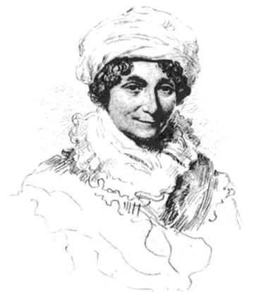 Susanna Taylor [née Cook] (1755–1823), born in Norwich on 29 March 1755, was the daughter of John Cook and Aramathea Maria Phillips